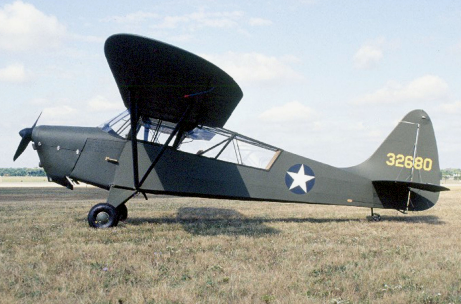 An Interstate L-6A Grasshopper (s/n 43-2680) of the National Museum of the United States Air Force, in Dayton, Ohio (USA). Official description: "The Interstate Co. entered the aviation industry in 1940 with the S-1B "Cadet," a tandem seat liaison airplane. When the United States entered World War II, the U.S. Army Air Forces contracted with Interstate for 250 S-1B aircraft, designating the prototype as the XO-63. It was the last airplane to use the "O" (for observation) designation. Later, the USAAF designated the production airplane as the L-6. The aircraft, however, had significant overheating problems that were only partially solved. It had the dubious distinction that fewer L-6s were built than any other USAAF liaison aircraft. The USAAF used the L-6 as a utility transport, liaison and training aircraft in the United States but never shipped it overseas. After the war, the remaining L-6s were sold as surplus."